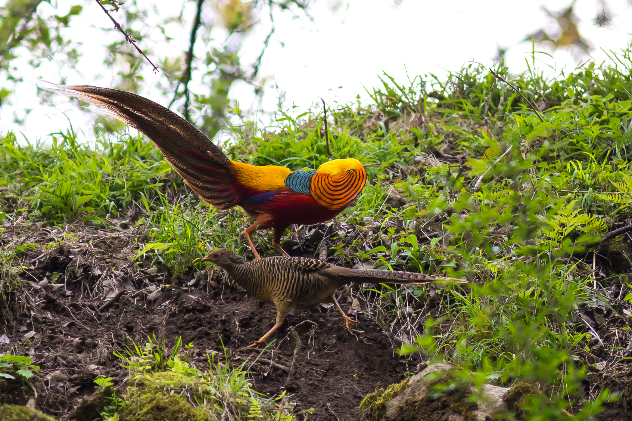 During courtship, the male golden pheasant dances around the females, making high-pitched chirping noises as he does so. As he runs around the females, he draws his beautiful golden neck and cheek feathers across his beak, almost like a cape while making a high-pitched metallic sound. Look how the deep orange "cape" can be spread in display, appearing as an alternating black and orange fan that covers all of the face except its bright yellow eye with a pinpoint black pupil.